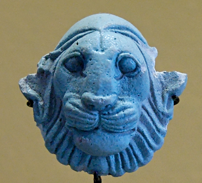 Amulet-pendant with lion head. Earthenware, Achaemenid artwork, late 6th–4th centuries BC. From Susa.